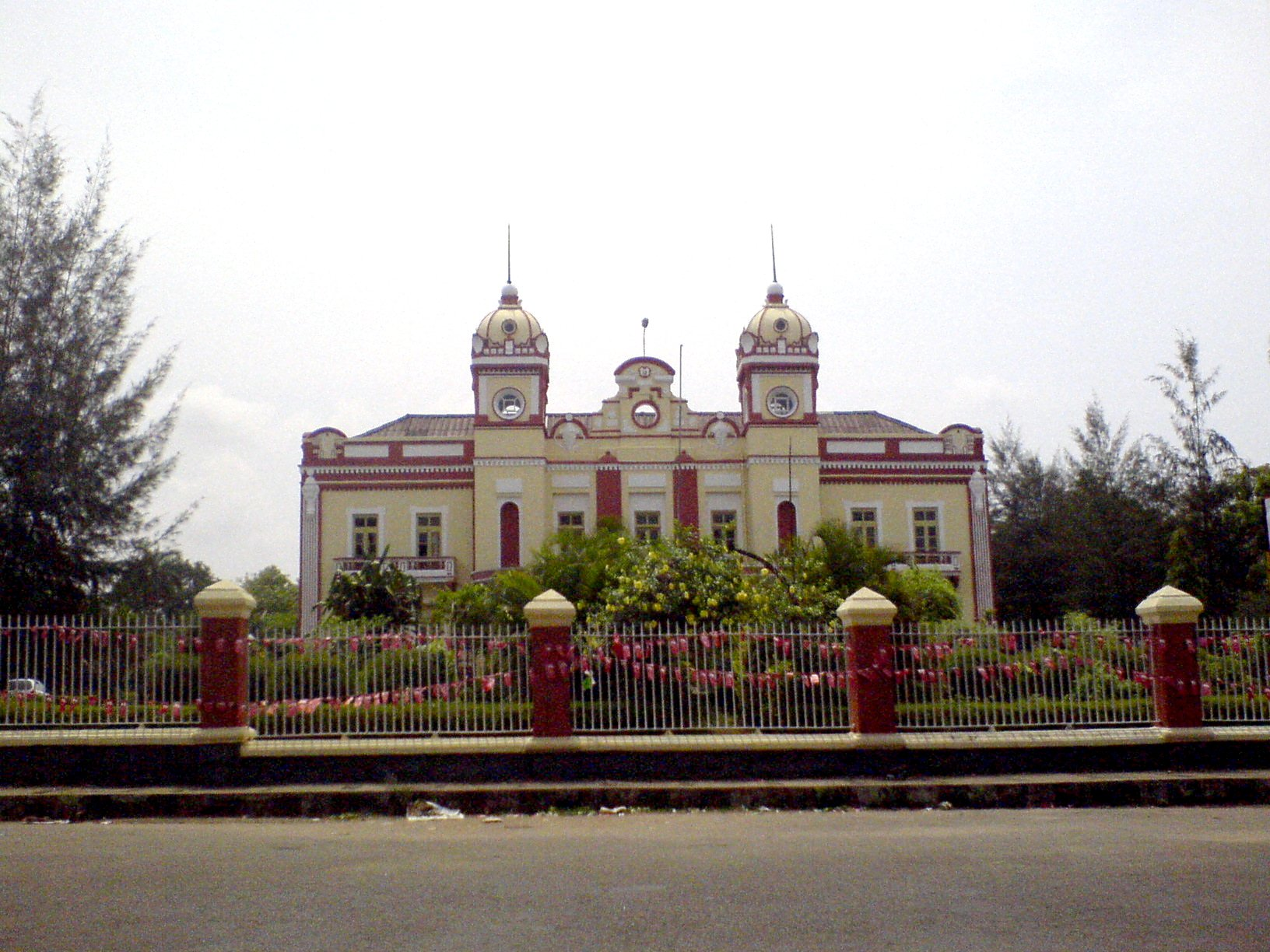 Photographed by Adv. Ranjith Xavier Attokaran on 29.04.2007.